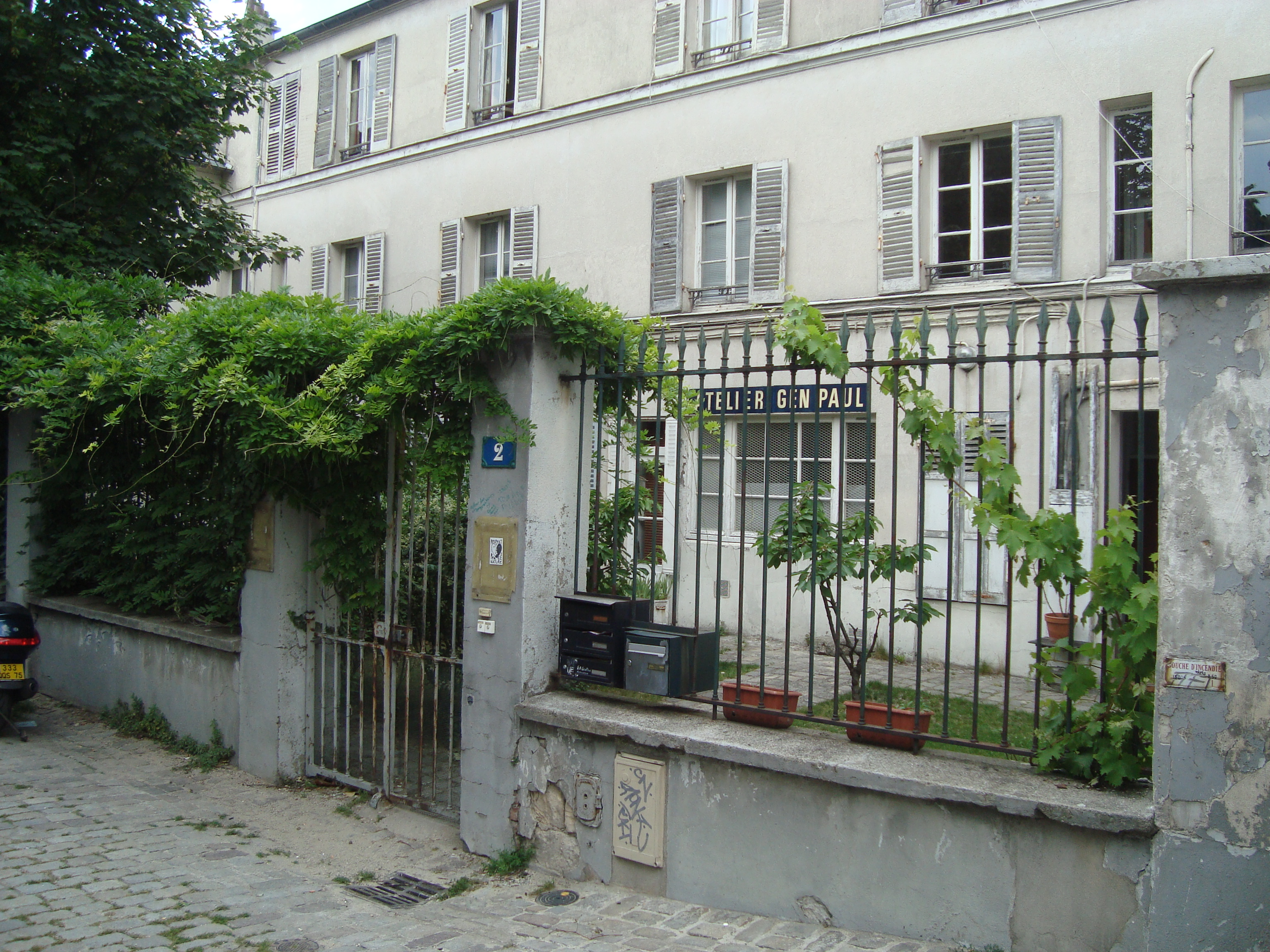 View of the Gen Paul's studio in impasse Girardon, Montmartre, Paris.